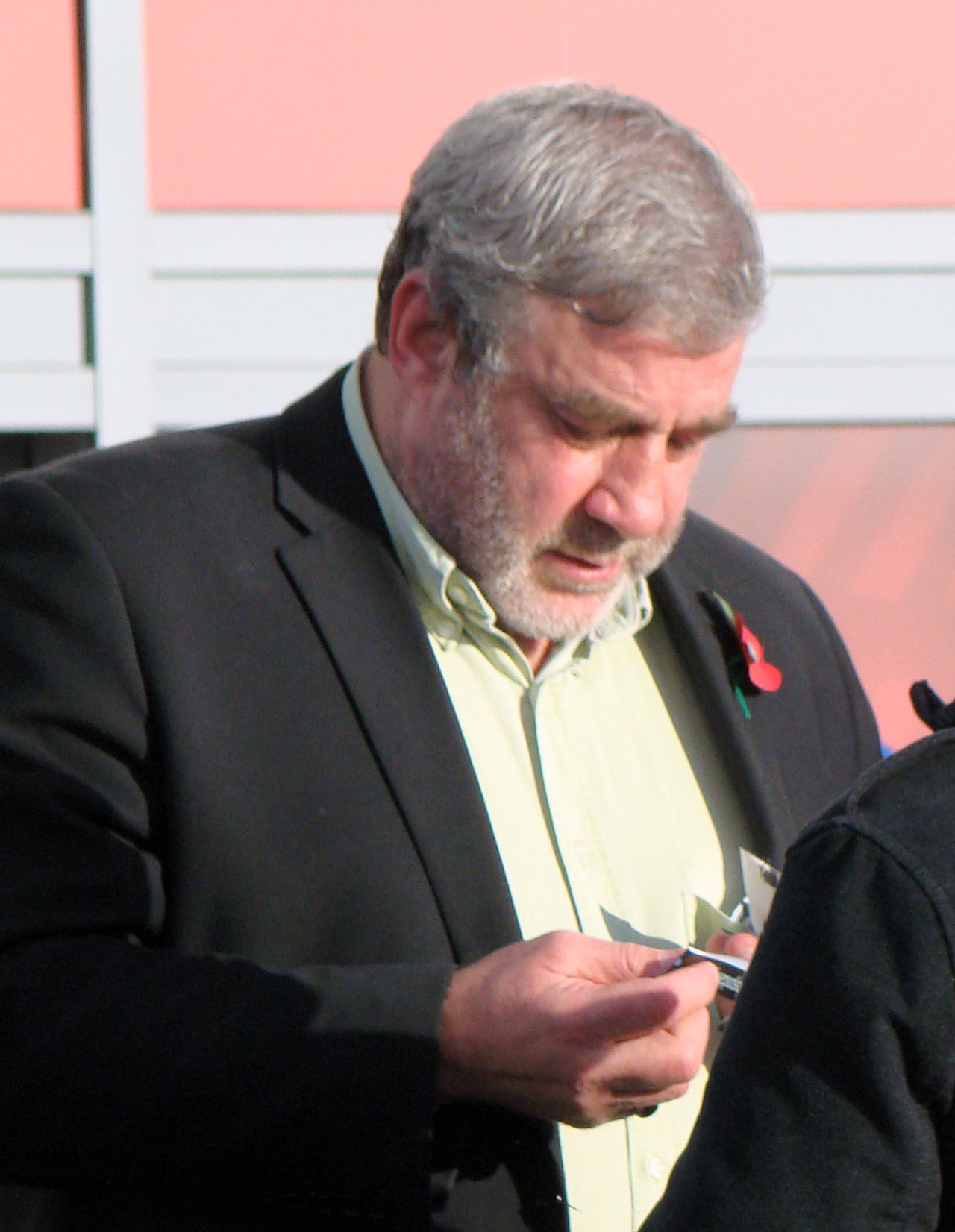 Cardiff City FC player Phil Dwyer in November 2012